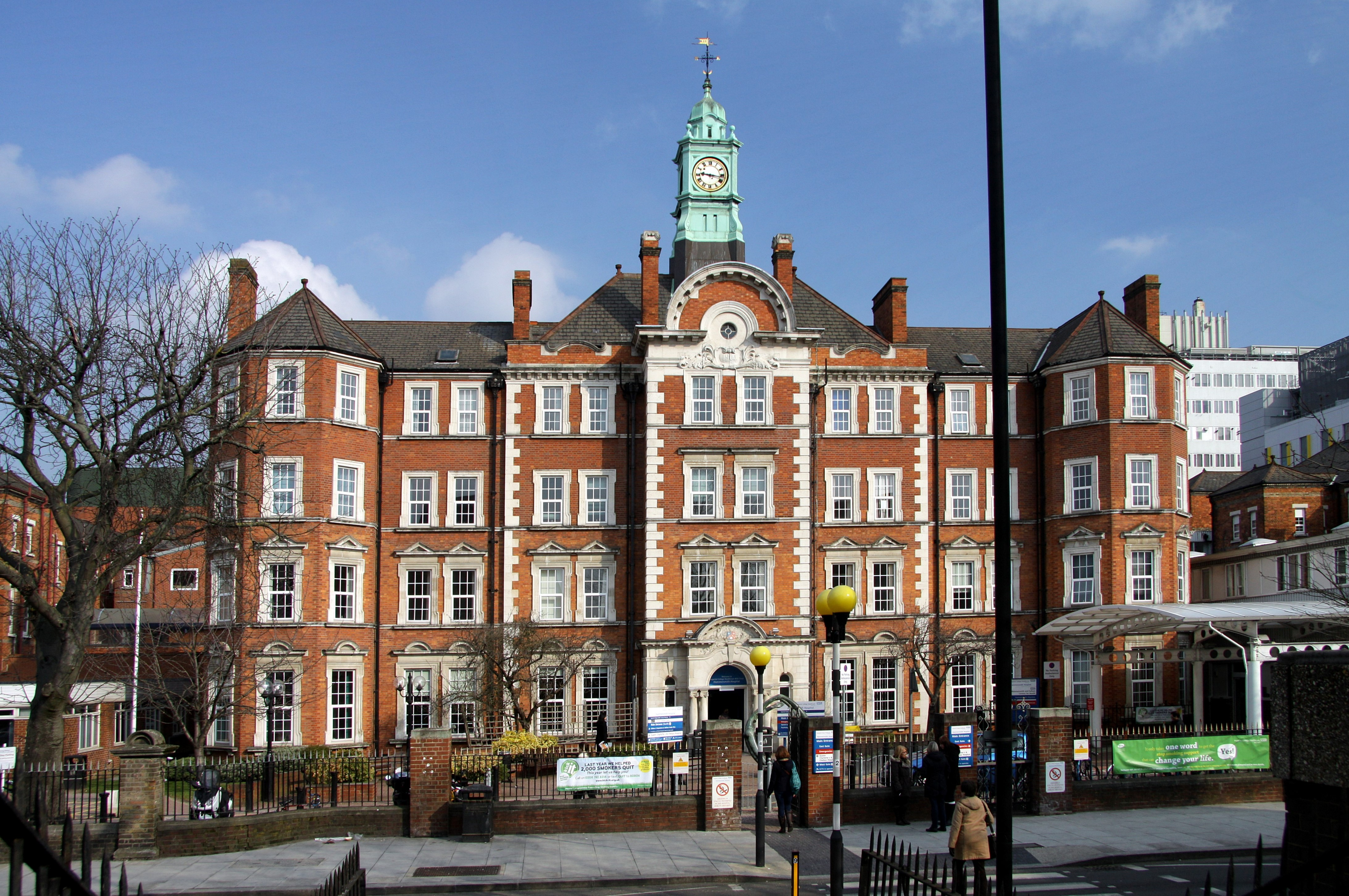 Hammersmith Hospital in London, England, Great Britain